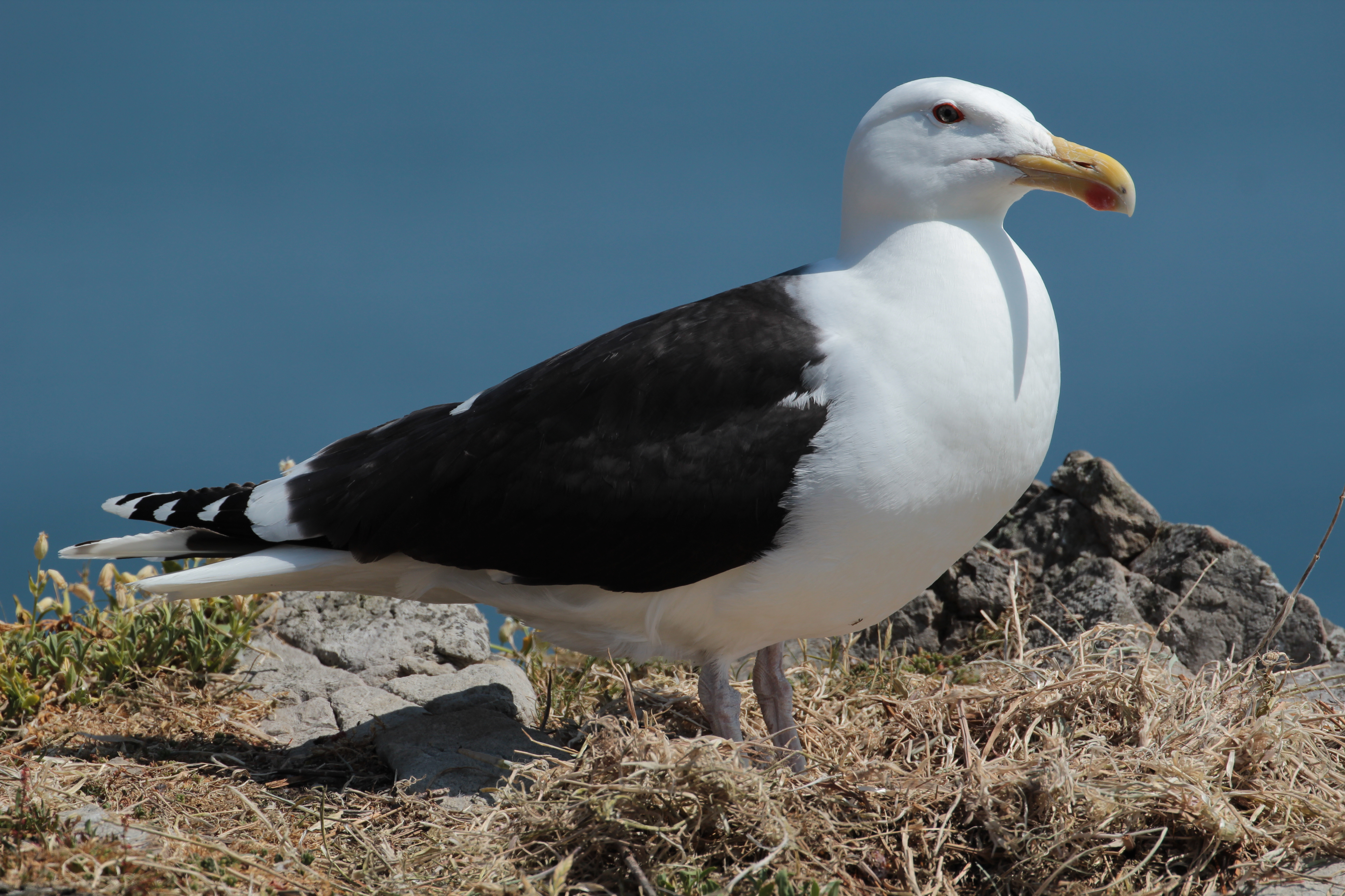 The Dublin Branch of the Irish Wildlife Trust takes an annual trip to Ireland's Eye off Howth, Co. Dublin. This photos was taken during the 2018 trip.